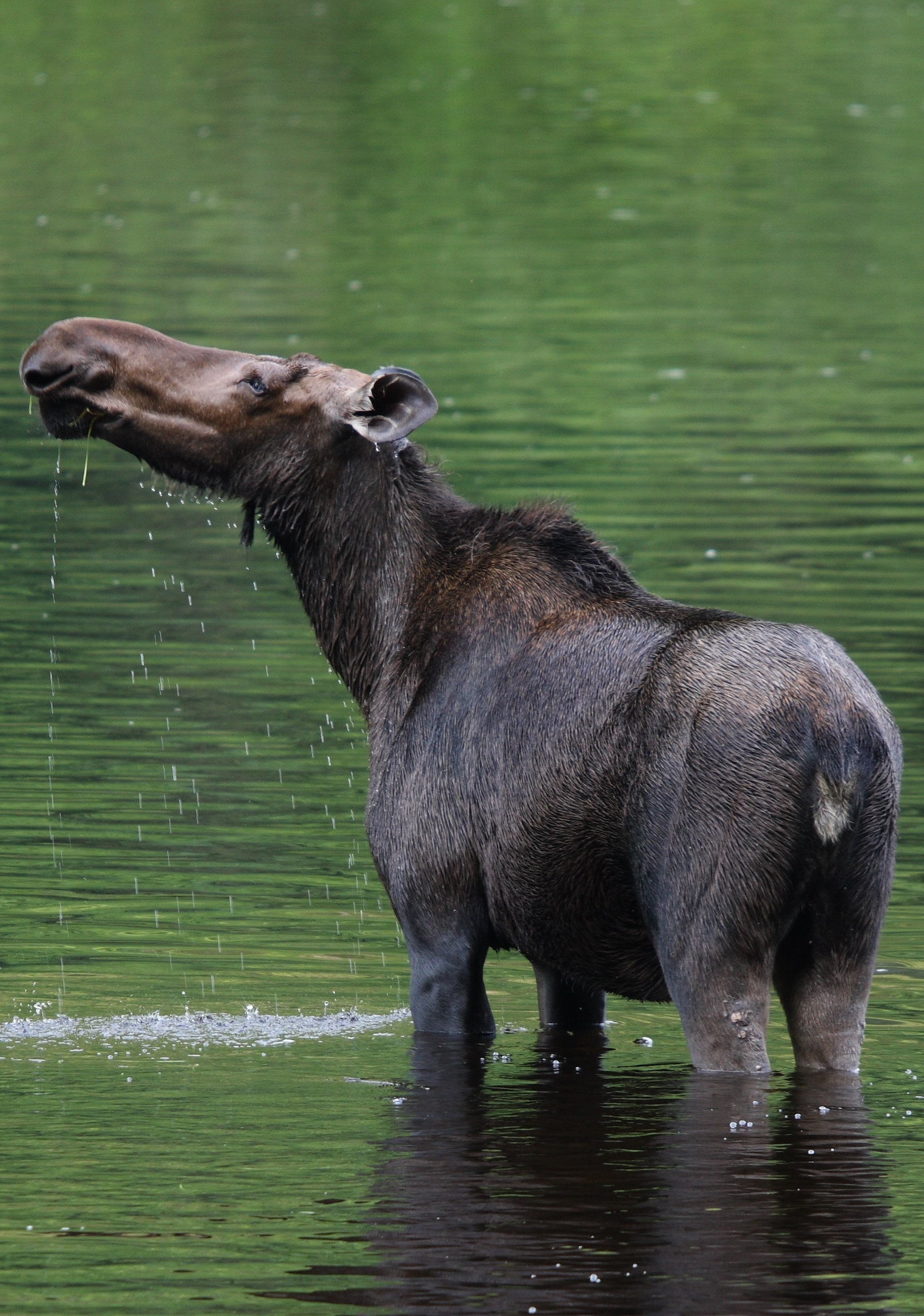 Moose, female, in Jacques-Cartier River, Jacques-Cartier National Park, Quebec, Canada.